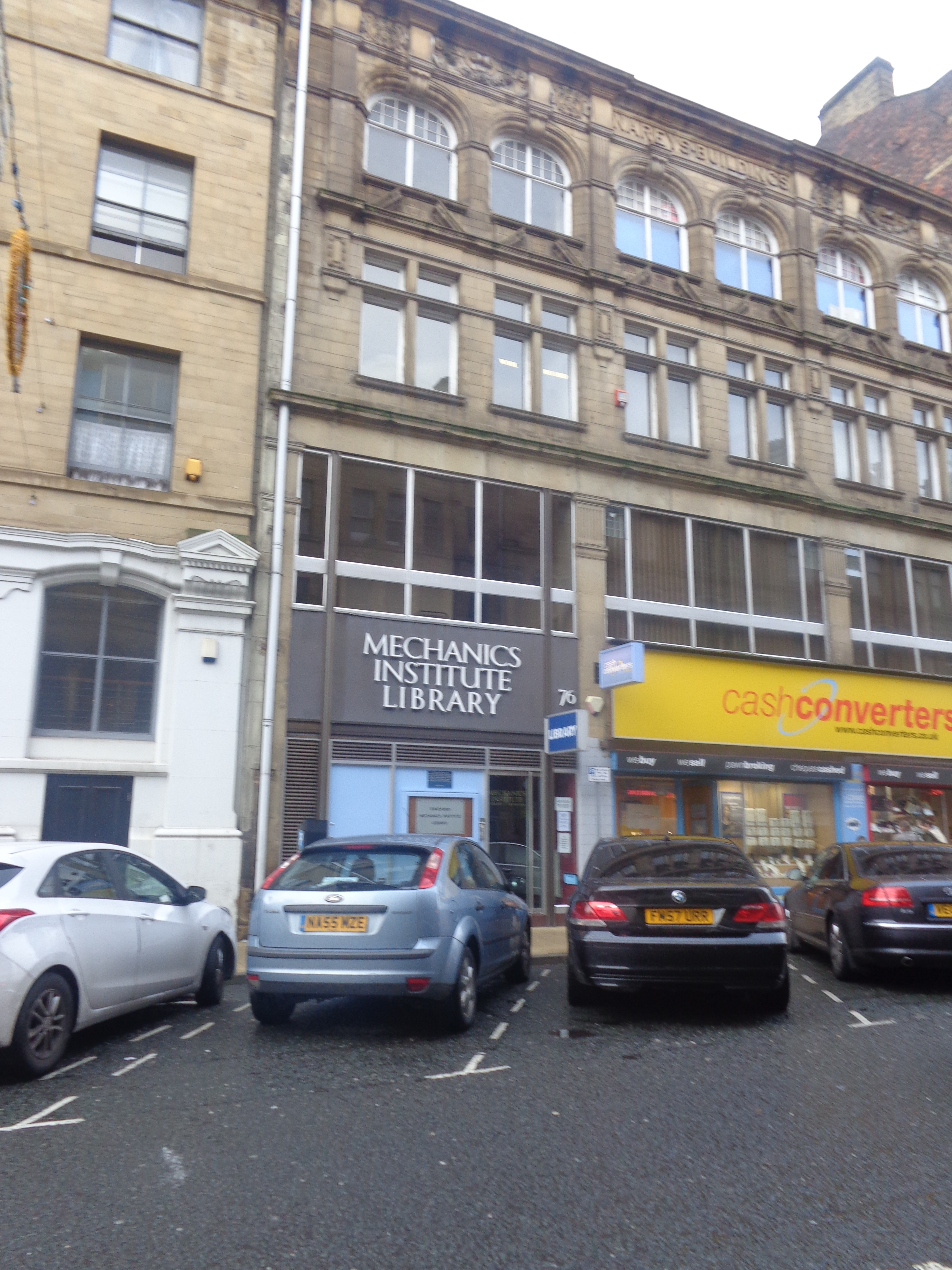 Bradford Mechanics' Institute Library, Kirkgate, Bradford, West Yorkshire. Taken on the afternoon of Saturday the 8th of November 2014.